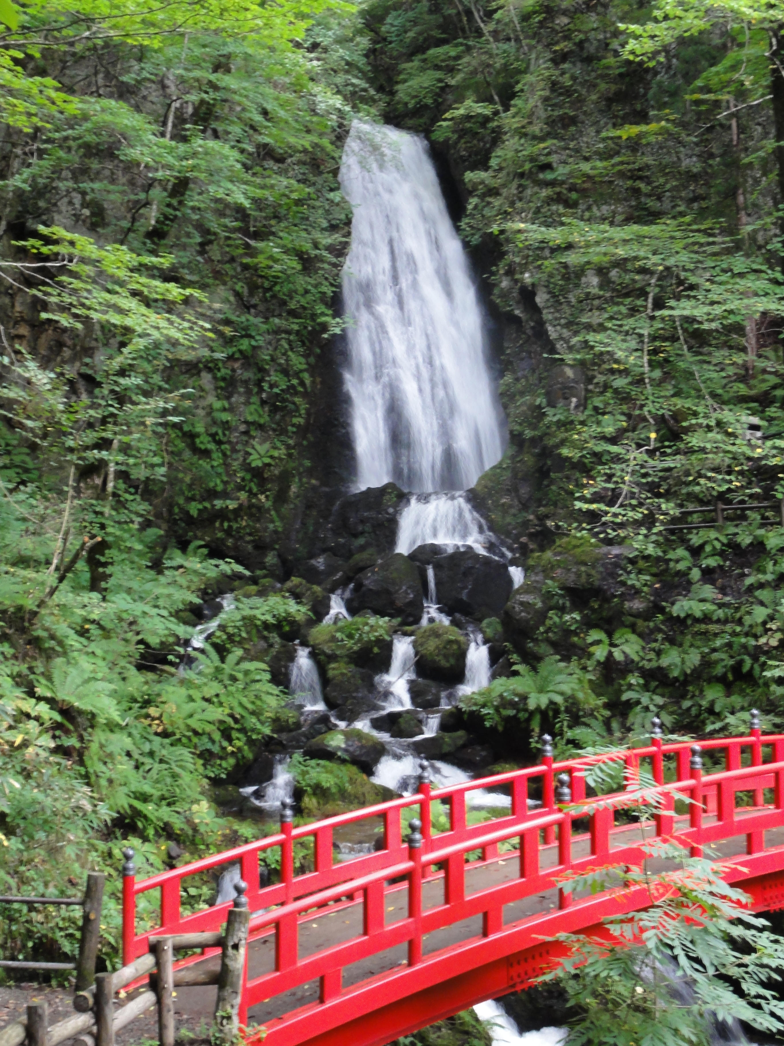 Waterfall of Fudou in Hatimantai,Iwate Pref., Japan